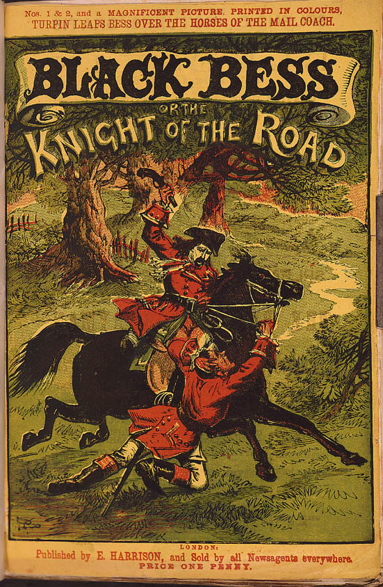 A Penny Dreadful featuring Dick Turpin